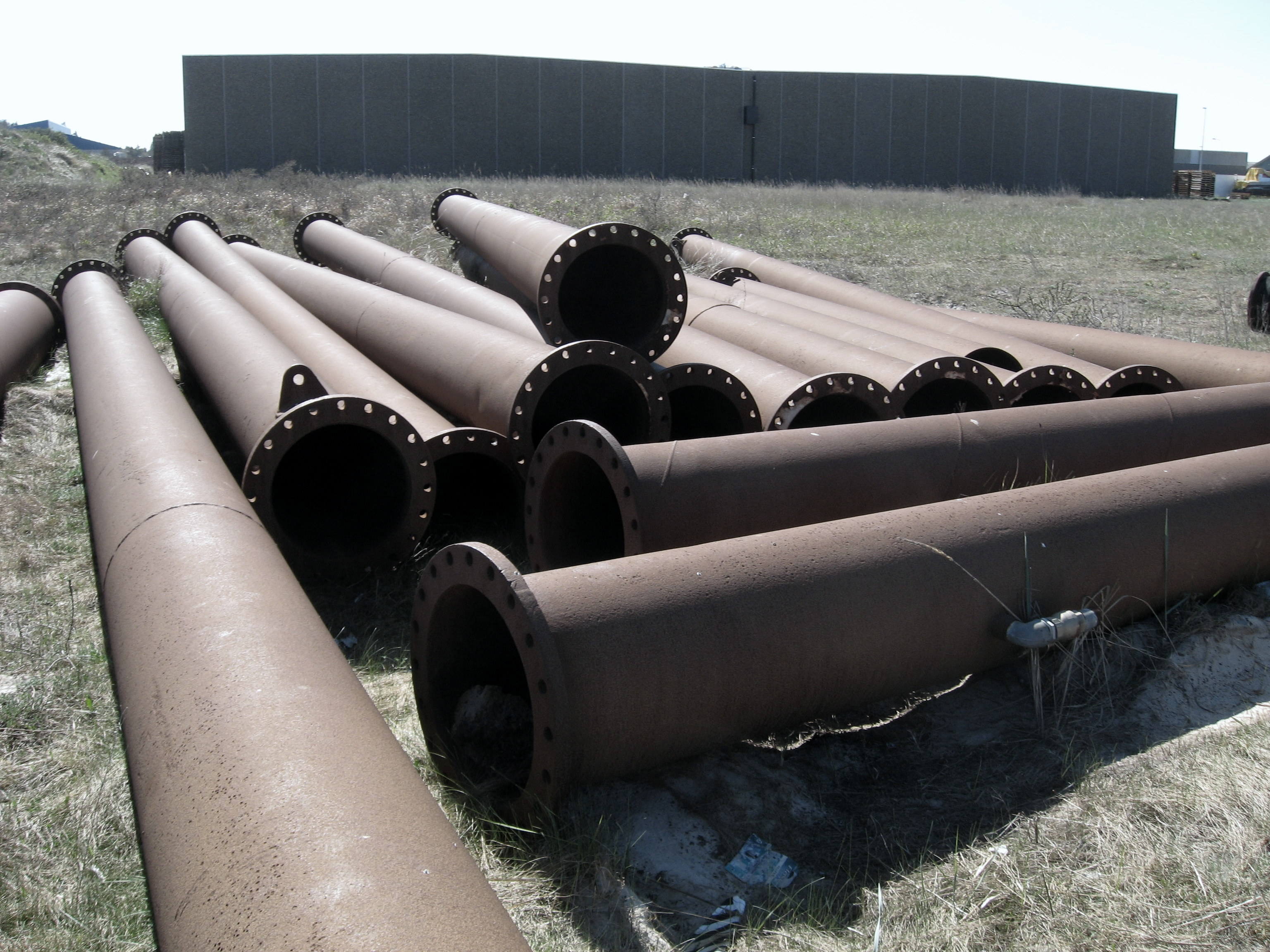 Flanged pipes